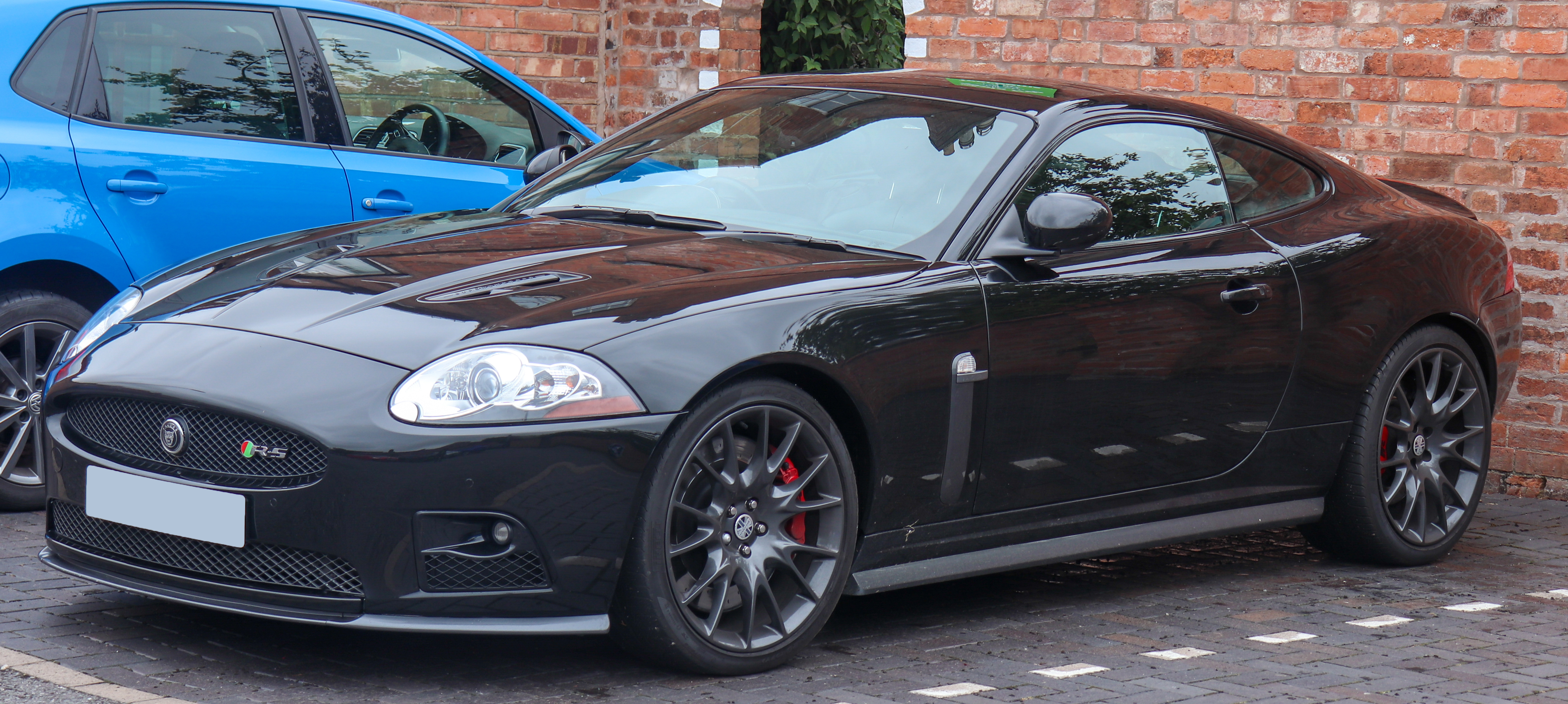 2008 Jaguar XKR-S Automatic 4.2 Taken in Warwick